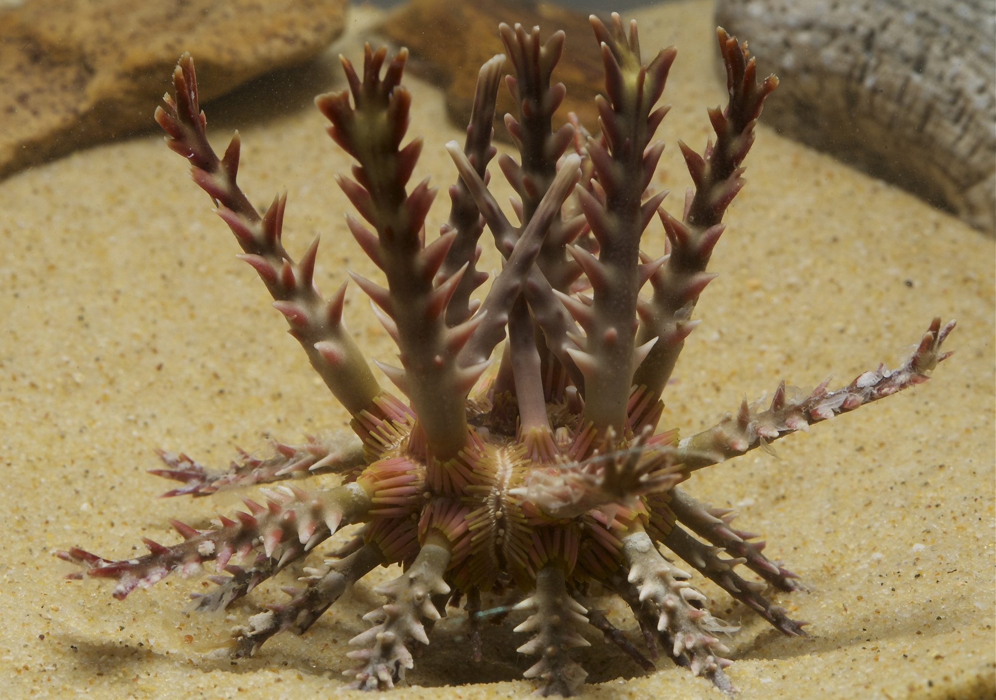 Goniocidaris tubaria, Thorny Sea Urchin (from southern Australia).